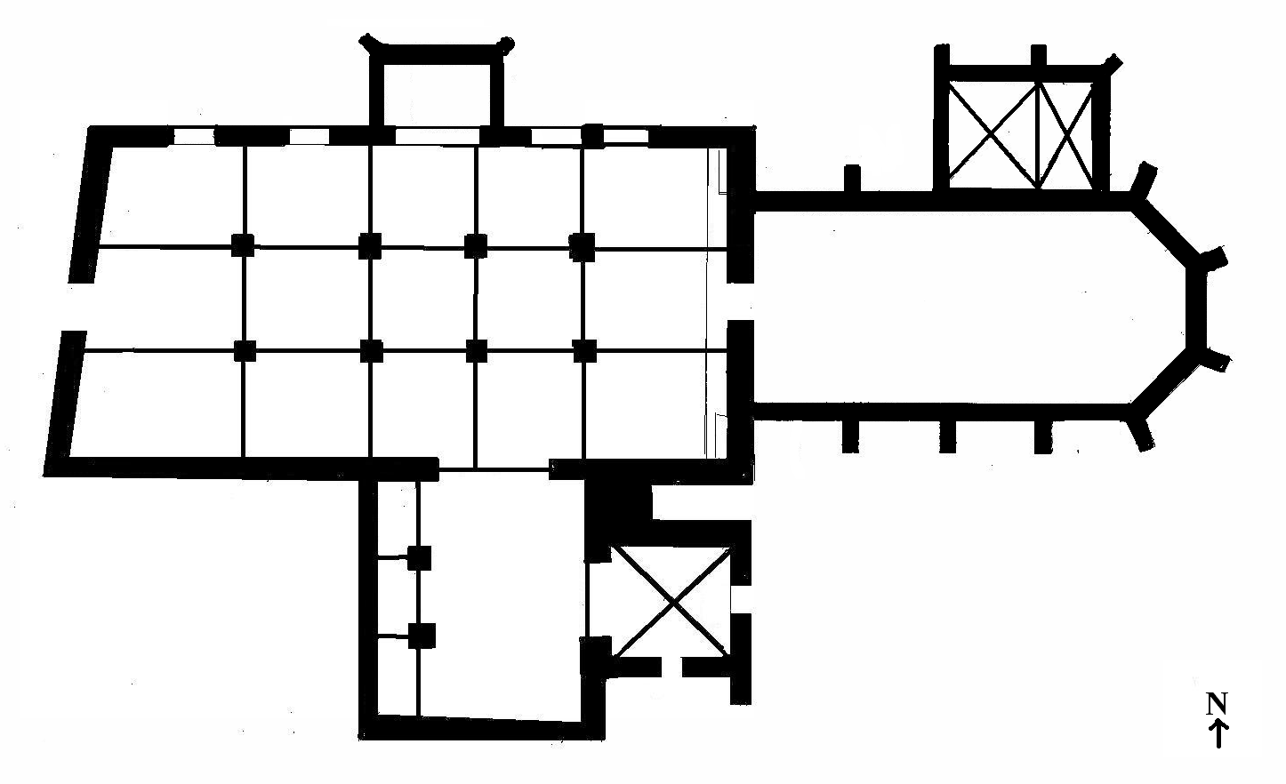 x